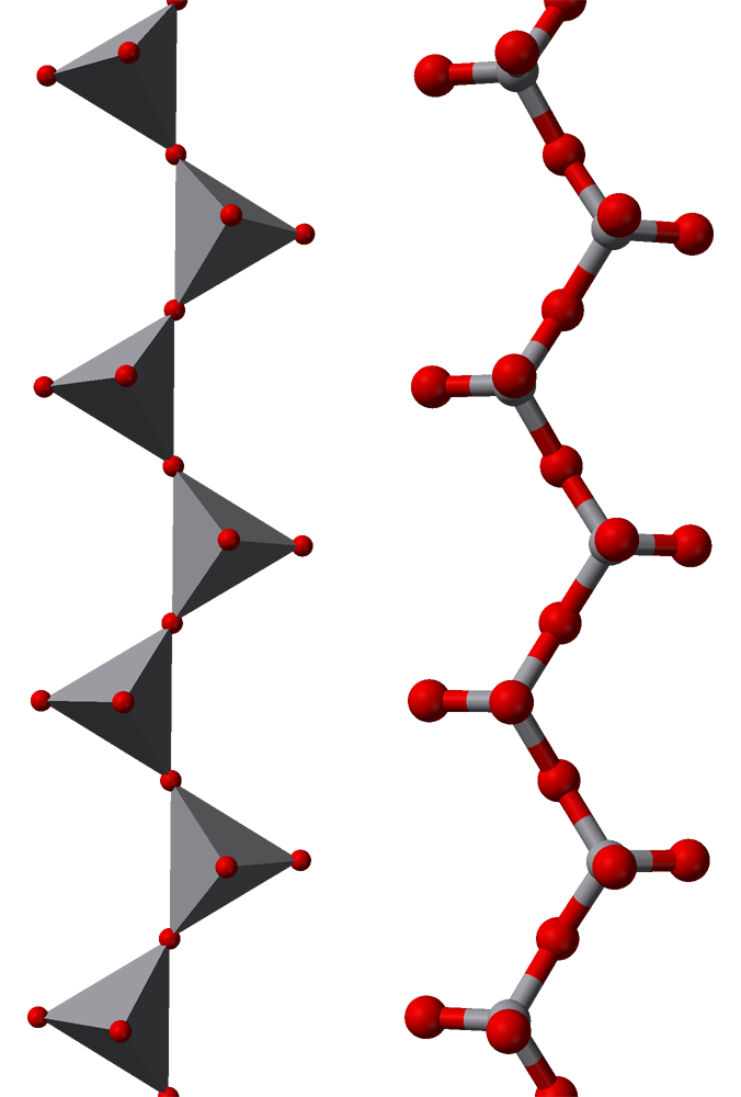 Model of [(VO3)n]n− chains in the crystal structure of ammonium metavanadate, NH4VO3. X-ray crystallographic data from Vladimír Syneček and František Hanic (1954). "The crystal structure of ammonium metavanadate". Czechoslovak Journal of Physics 4: 120-129.